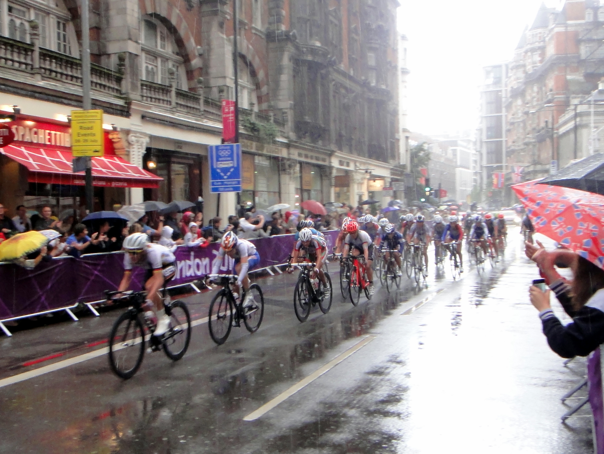 Olympic Women's Cycling Road Race - Knightsbridge Road